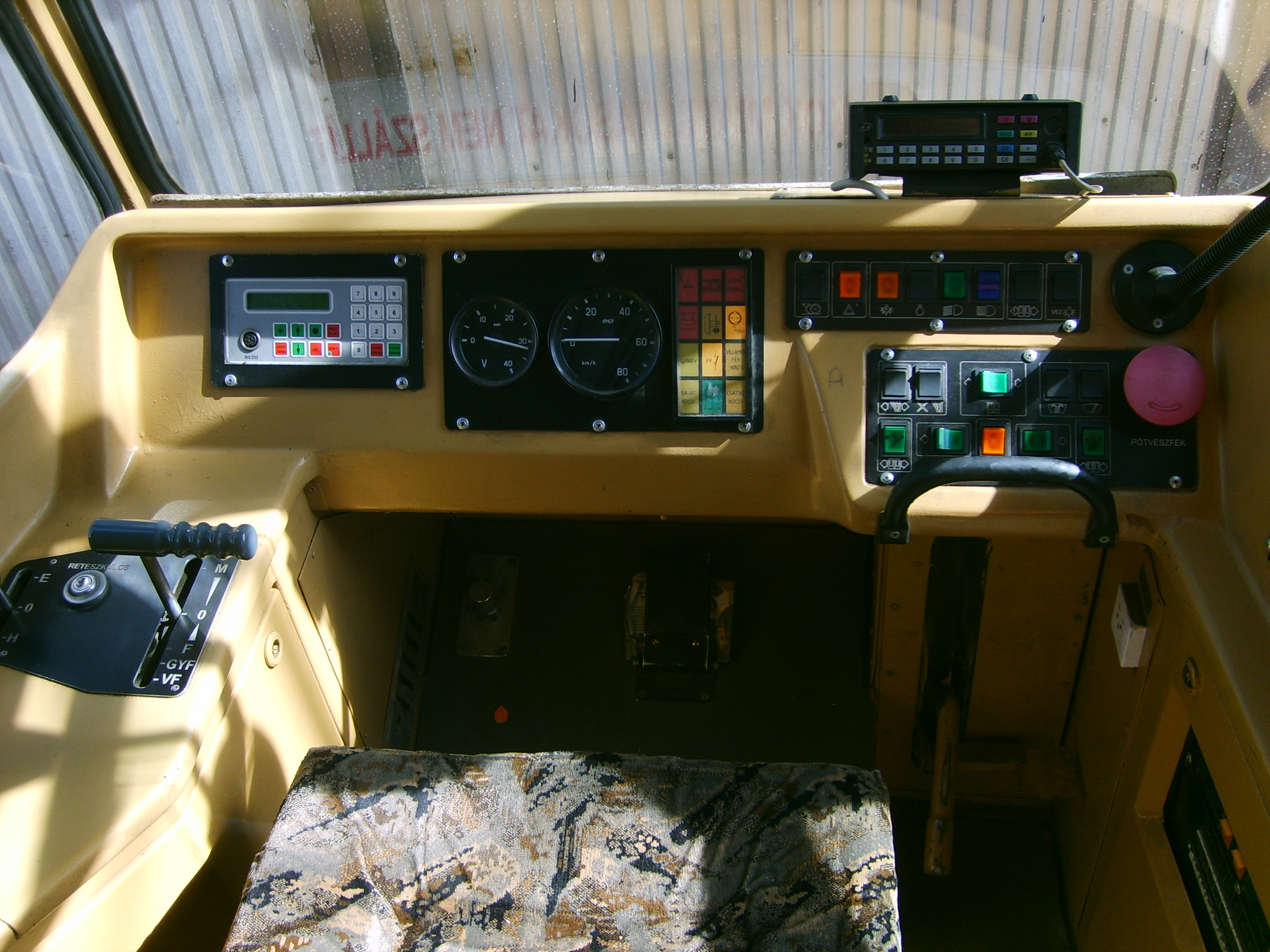 Drivers cab of a Ganz KCSV7 tram in Budapest